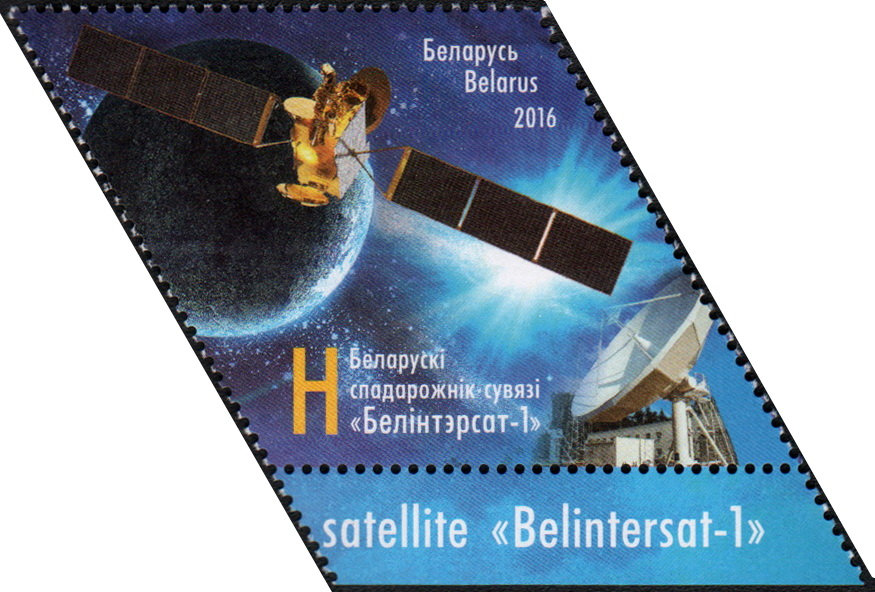 Belarusian communication satellite "Belintersat".